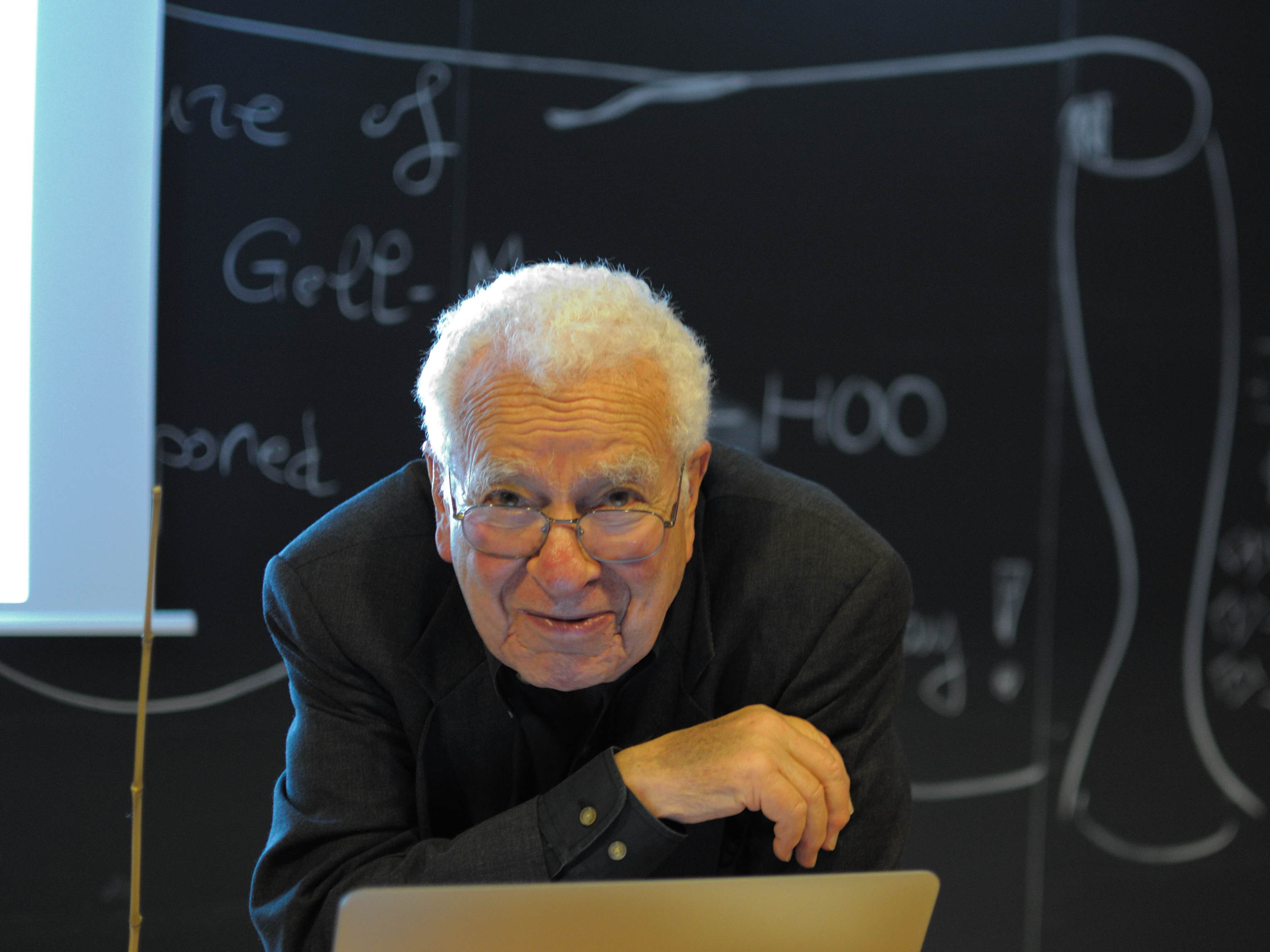 Murray Gell-Mann visiting ICRANet site in Nice, France, 07/06/2012 Lection